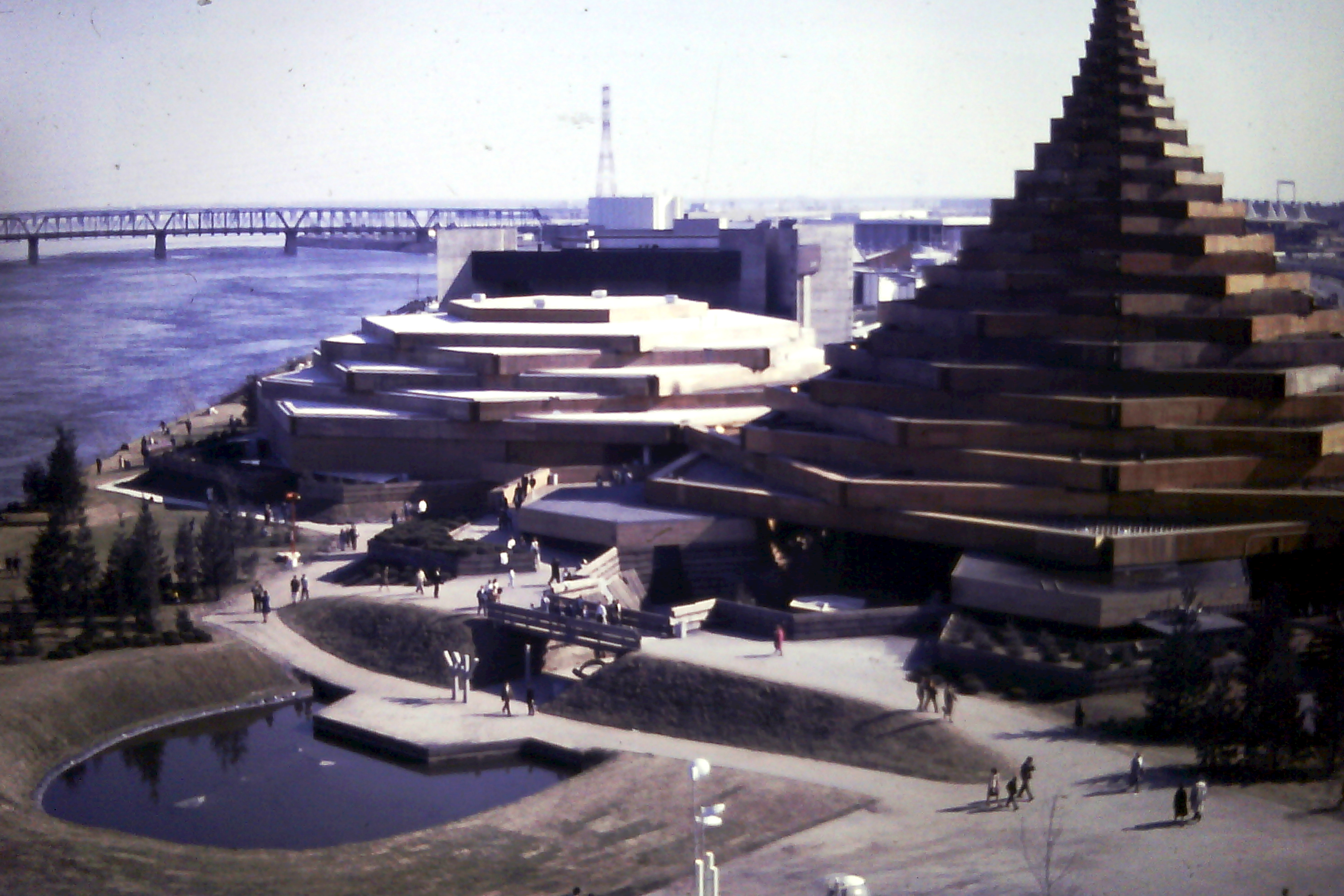 Thematic pavilion Man in the Community and its adjoining Man and His Health pavilion on the left, located at Cité-du-Havre.This picture was taken by my father at Expo 67 (I was -7 years old at the time). I scanned these pictures from slides.